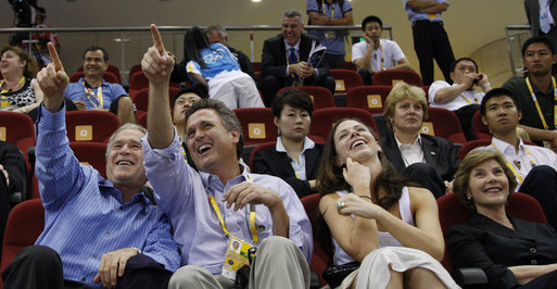 President George W. Bush is joined by his brother, Marvin Bush, daughter, Ms. Barbara Bush and Mrs. Laura Bush as they attend the U.S. Women's Olympic Basketball Team's match Saturday, Aug. 9, 2008, against the Czech Republic team at the Beijing 2008 Summer Olympics Games.